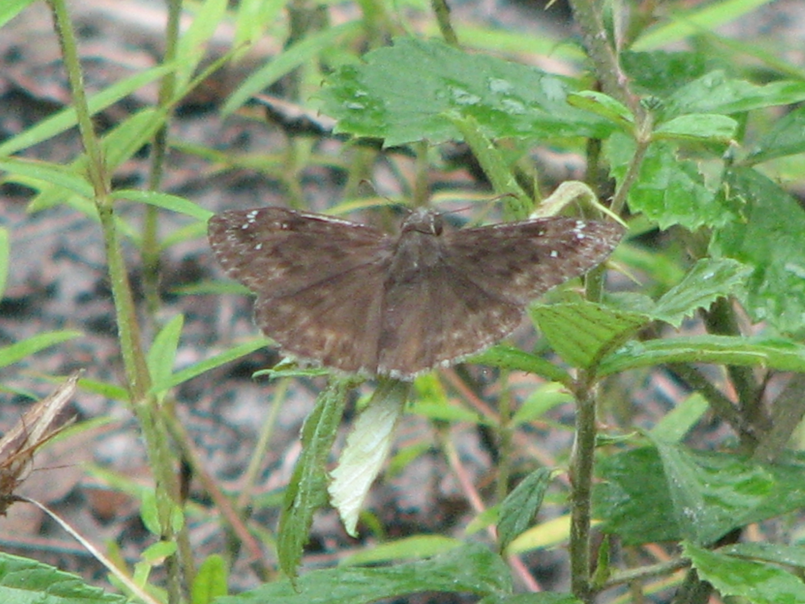 Erynnis horatius Trailwalker Trail Geothe State Forest Levy County, Florida